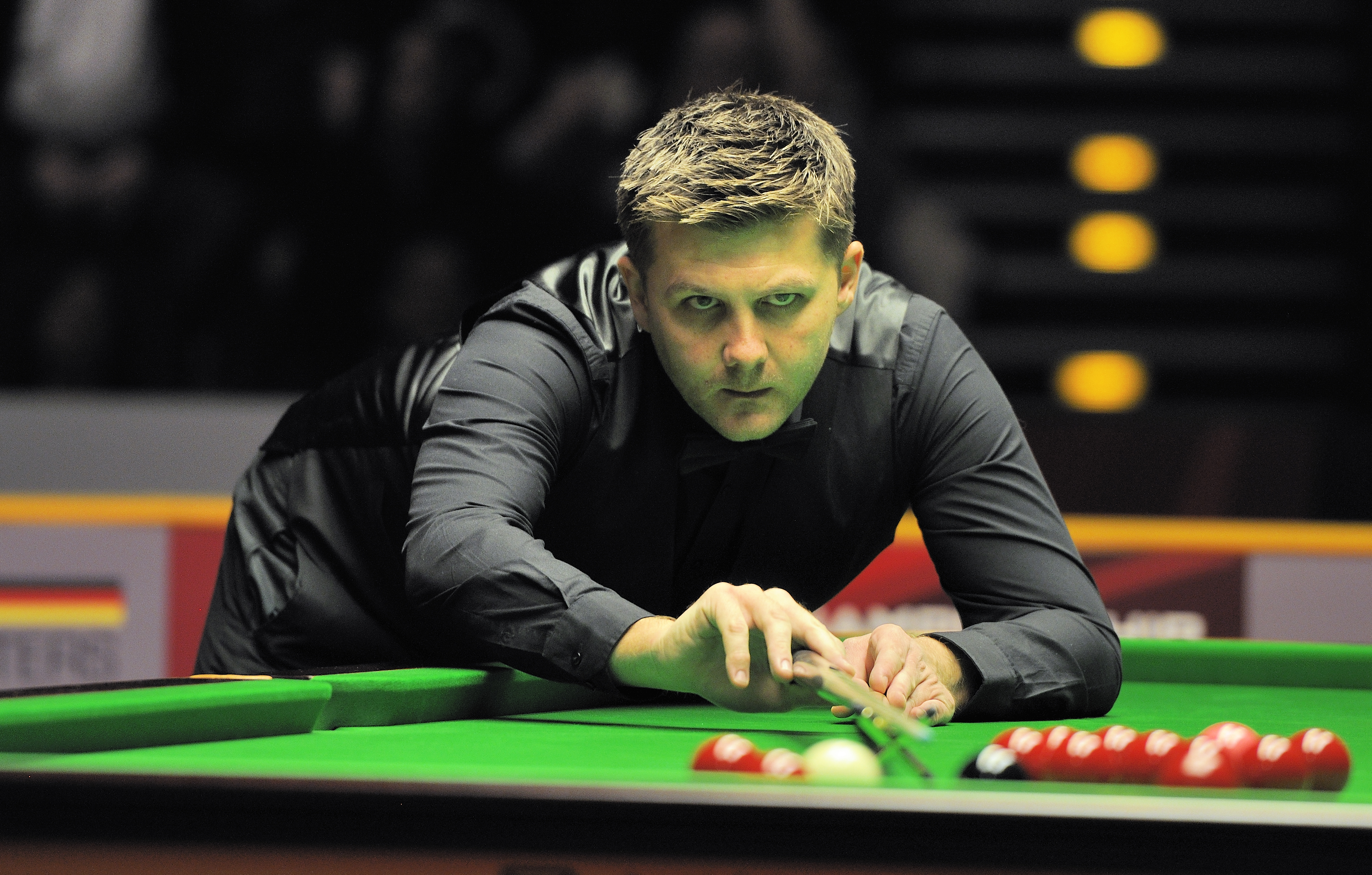 Picture taken in Berlin during the Snooker German Masters in 2014. Ryan Day.